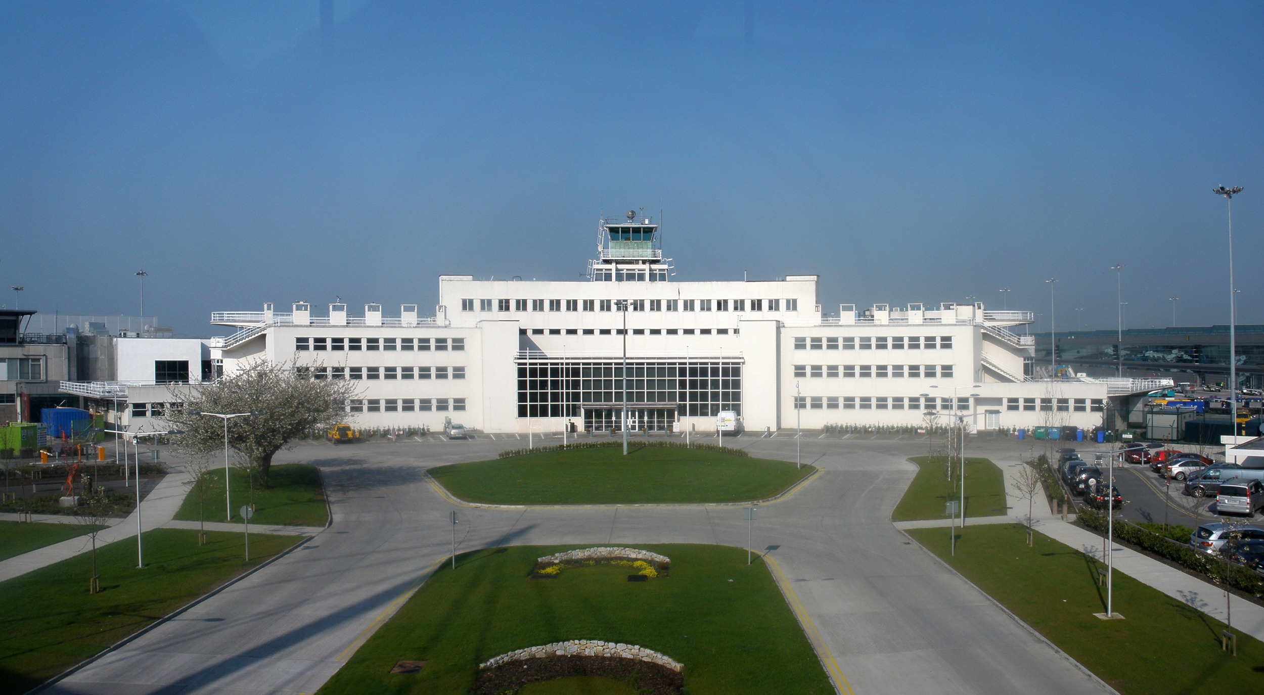 The original Dublin Airport terminal building was designed in the International Style by a team of architects in the Office of Public Works led by Desmond FitzGerald. The design was more or less complete by 1937 and the building was finished in 1940. The design team comprised Kevin Barry, Daithi Hanley, Charles Aliaga Kelly, Dermot O'Toole, and Harry Robson. The viewing balconies which look out over the runways west of the building were open to the public for the first few decades of its life, but were closed eventually for security reasons. Crowds filled the balconies when the Beatles arrived for their first concert in Ireland on 7 November 1963, and when the first Boeing 747 and Concorde flights arrived in Ireland (on 6 March 1971 and 1 October 1983, respectively). The terminal has been restored and is used as offices and departure gates.